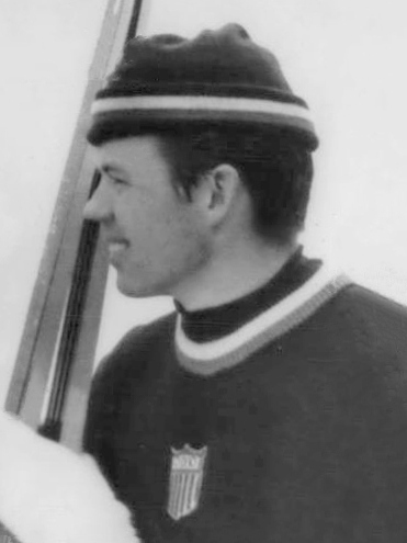 1960 Press Photo T Bjern Yggeseth, G Kotlarek, K Wegeman Olympic Skiing Michigan